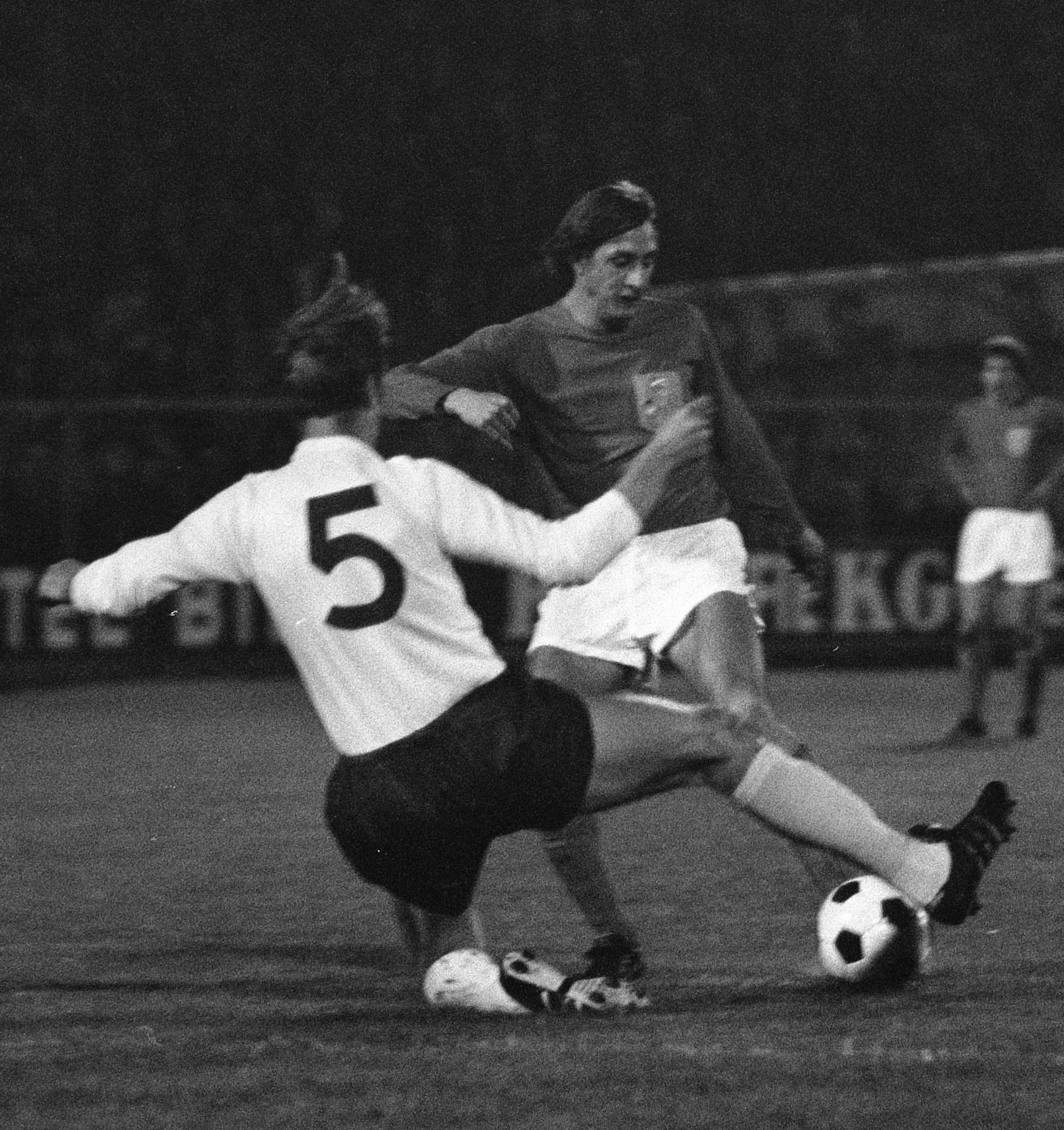 Nederland tegen Engeland 0-1. Cruyf probeert Jack Charlton te passeren.